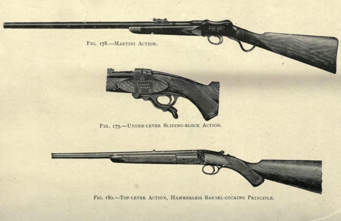 Single shot actions used by rook and rabbit rifles